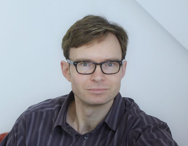 the German poet and professor for German literature Jan Volker Röhnert